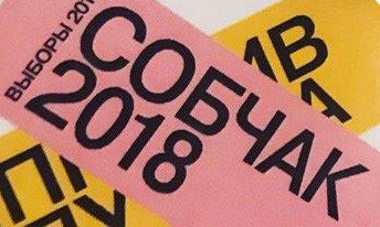 против 2018